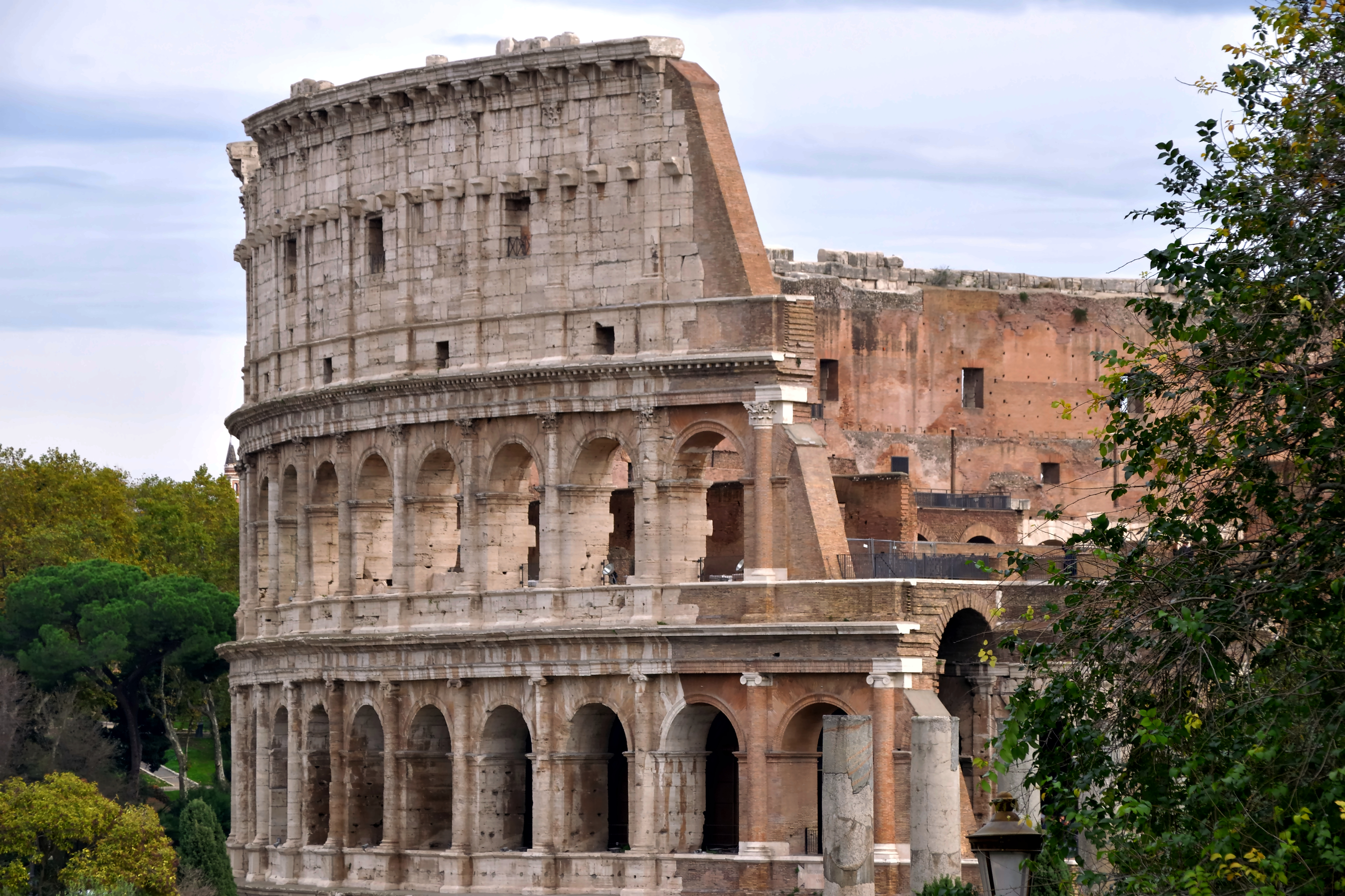 Colosseum in Rome seen from the Palatine Hill